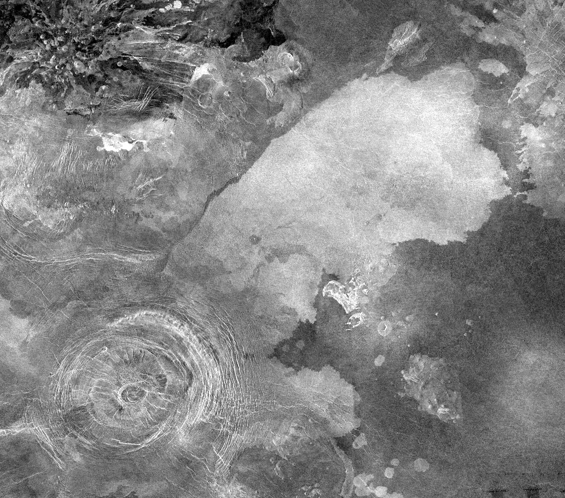 Koti Fluctus (lava flow) and Madderakka Corona (it's source; volcanic feature) on Venus. Magellan radar image mosaic. Width of the image is about 650 km. Original image was cropped and brightness-adjusted.